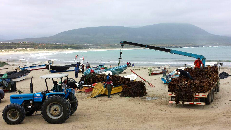 Unshipping and transport of kelp in Los Molles, Los Molles beach Valparaíso Region, Chile